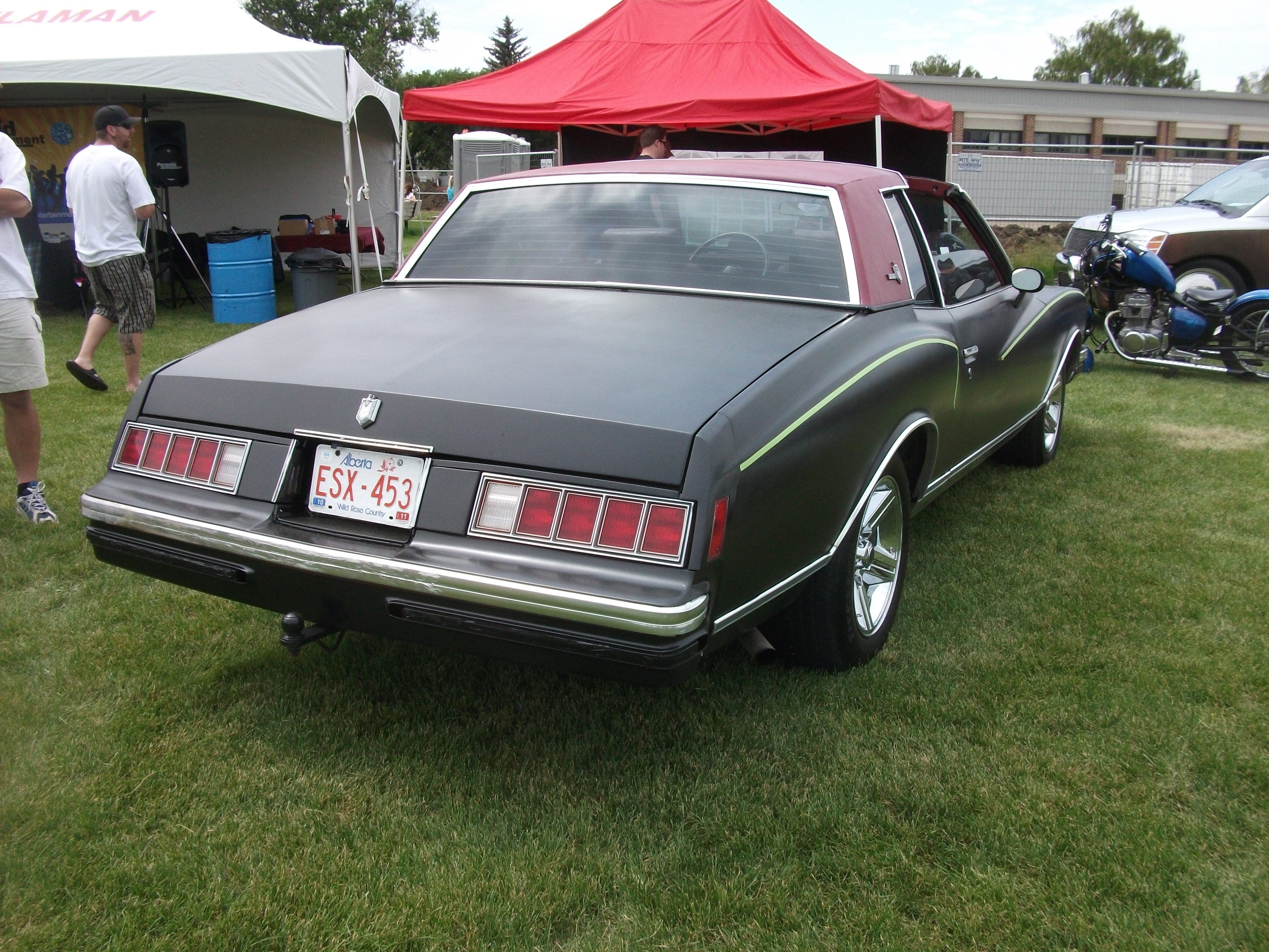 1978 Chevrolet Monte Carlo in flat black with red vinyl roof - rather like my LeBaron except much better.